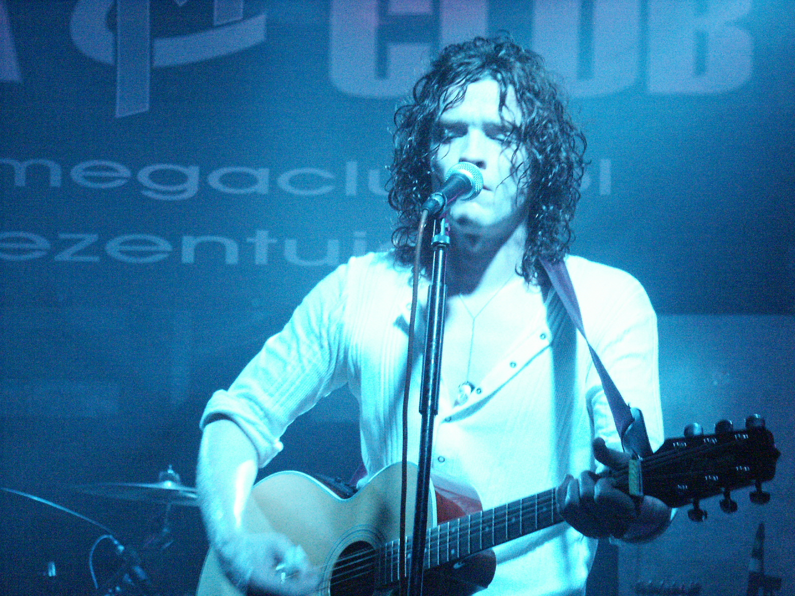 Vincent Cavanagh from Anathema at a concert in Mega Club in Katowice, Poland